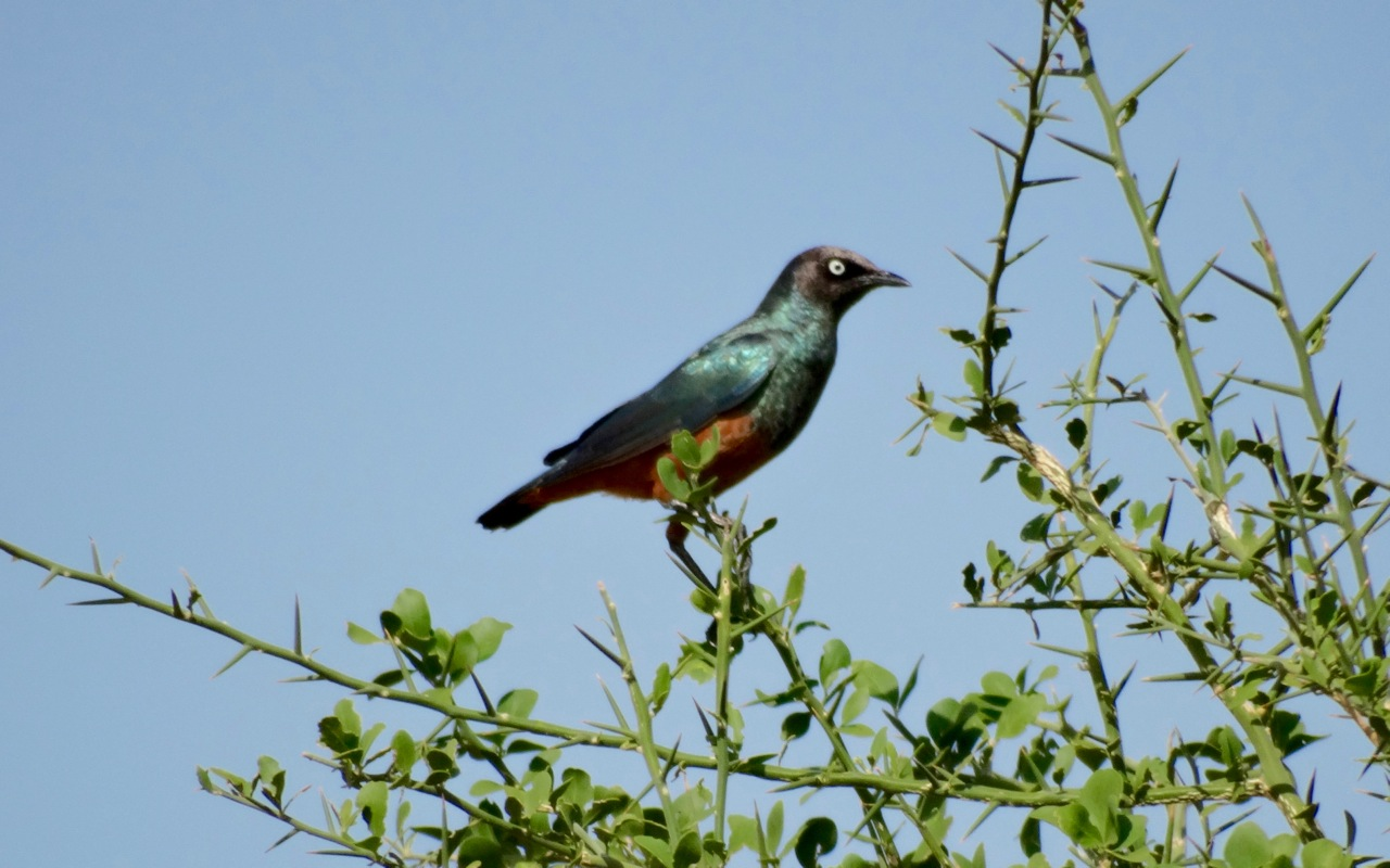 Chestnut-bellied starling (Lamprotornis pulcher) photographed near Belbedji, Zinder Region, Niger